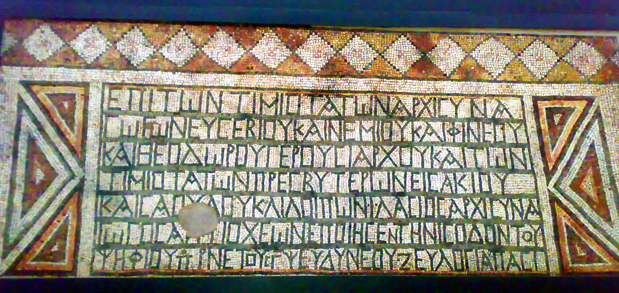 Inscription at the Synagogue of Apamea, year 392 AD. Royal Museums of Art and History, Belgium